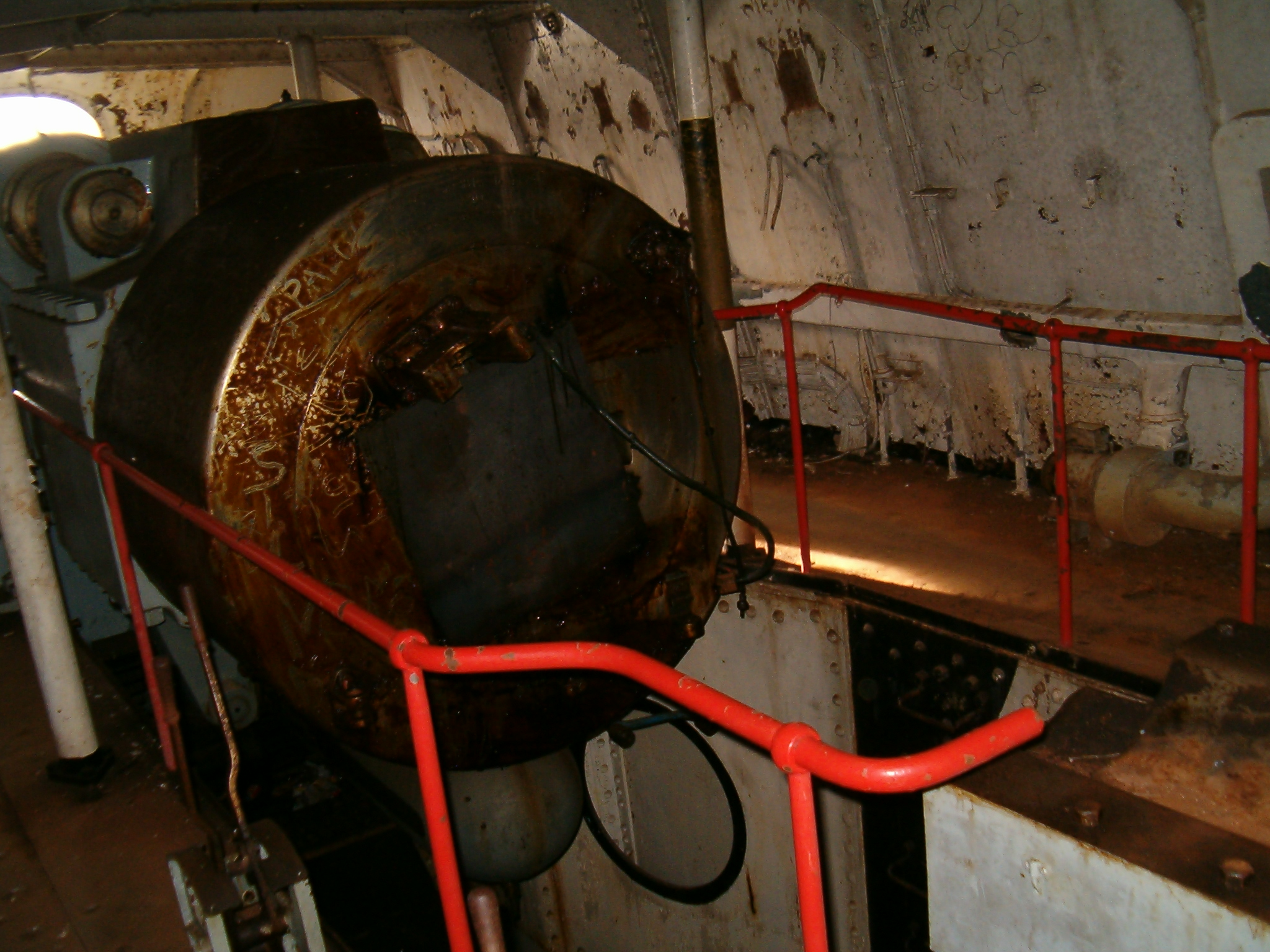 Canon battery Bateria de las Cenizas, near Cartagena, Spain